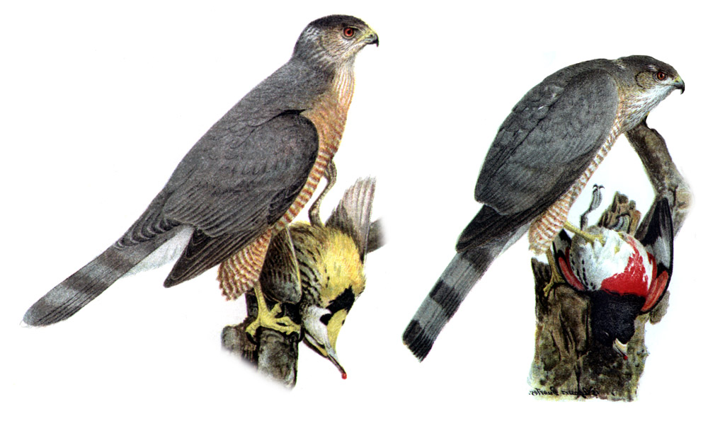 Cooper's Hawk, Accipiter cooperii, left; Sharp-shinned Hawk, Accipiter striatus, right, chromolithograph, montage from two different plates (note: not to scale)